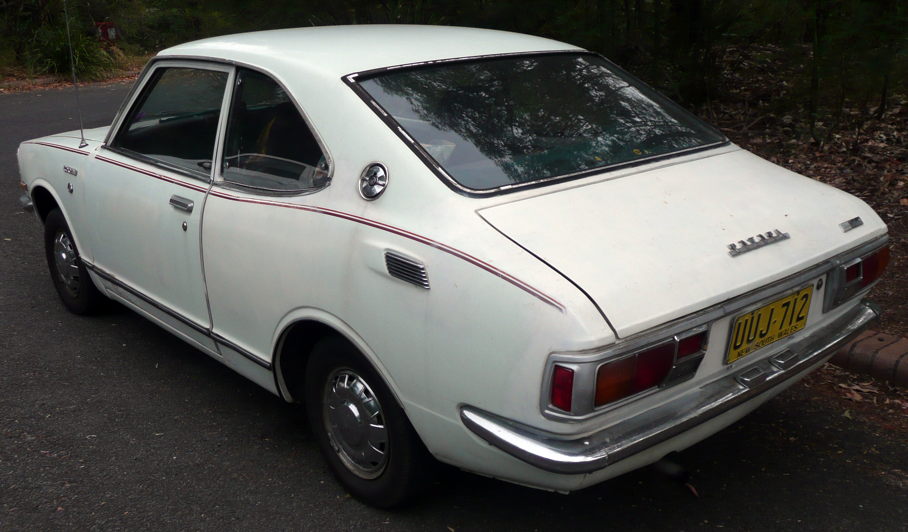 1973 Toyota Corolla (KE25-D) Deluxe coupe. Photographed in Audley, New South Wales, Australia.